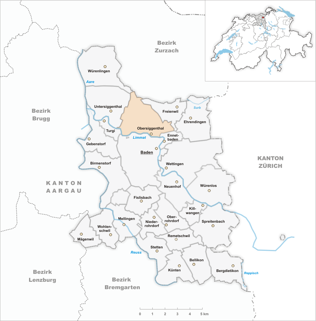 Municipality Obersiggenthal